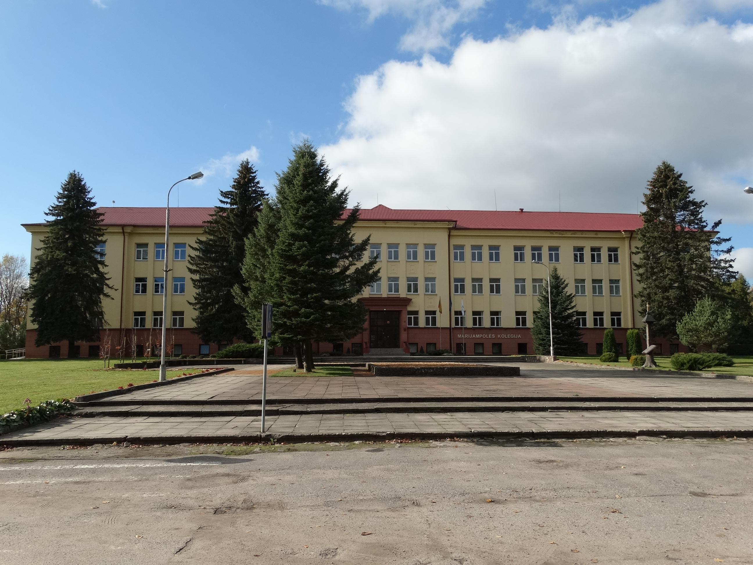 College, Marijampolė, Lithuania